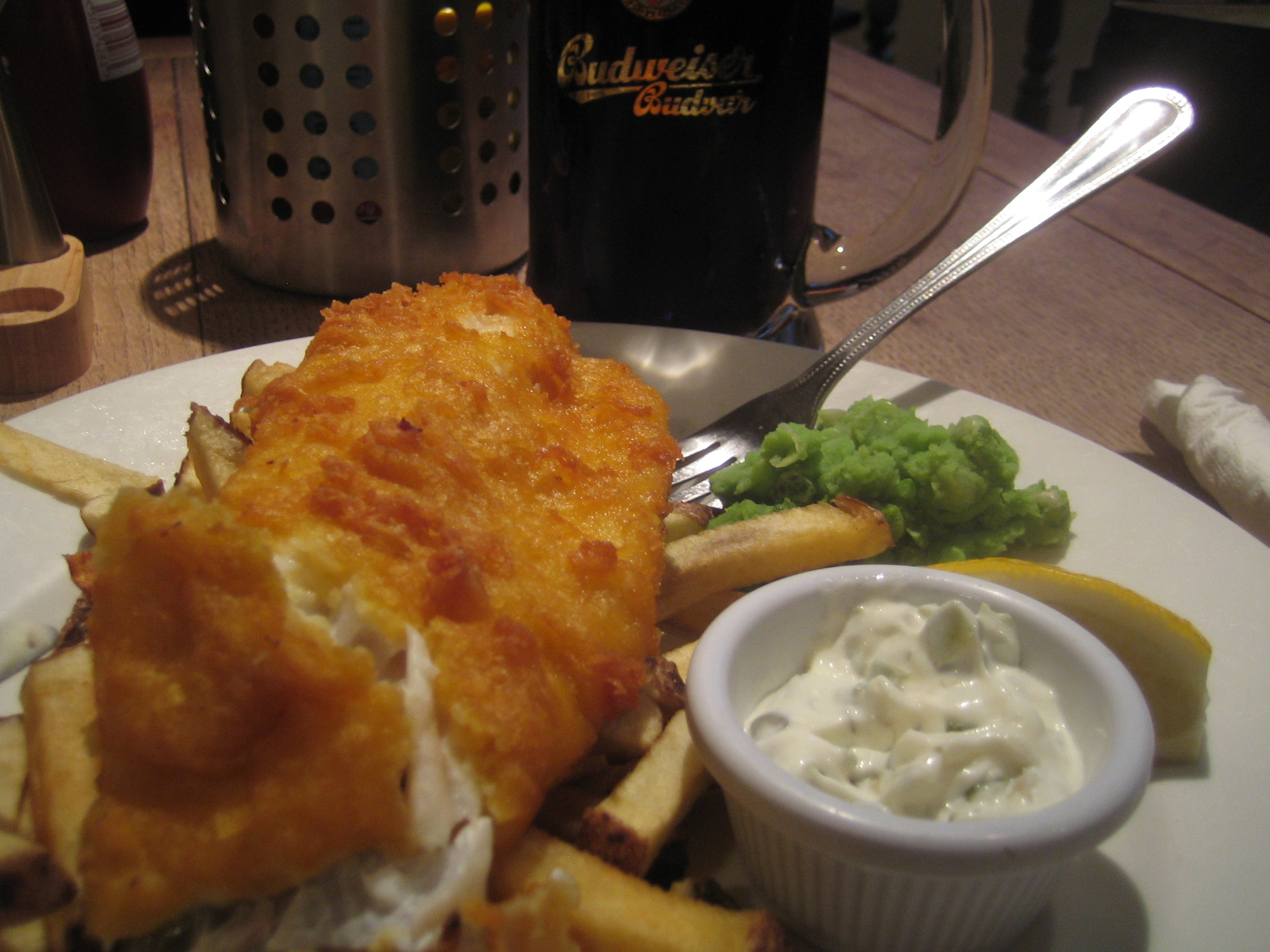 Beer battered cod and Maris Piper chips, with mushy peas, tartare sauce and Budvar Dark Lager.